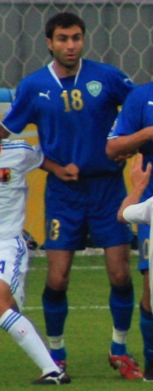 Free kick during qualification match for the 2010 Soccer World Cup (Asian zone) : Uzbekistan 0-1 Japan, at Pakhtakor Stadium, in Tashkent (Uzbekistan). Uzbekistan is in blue, Japan in white.